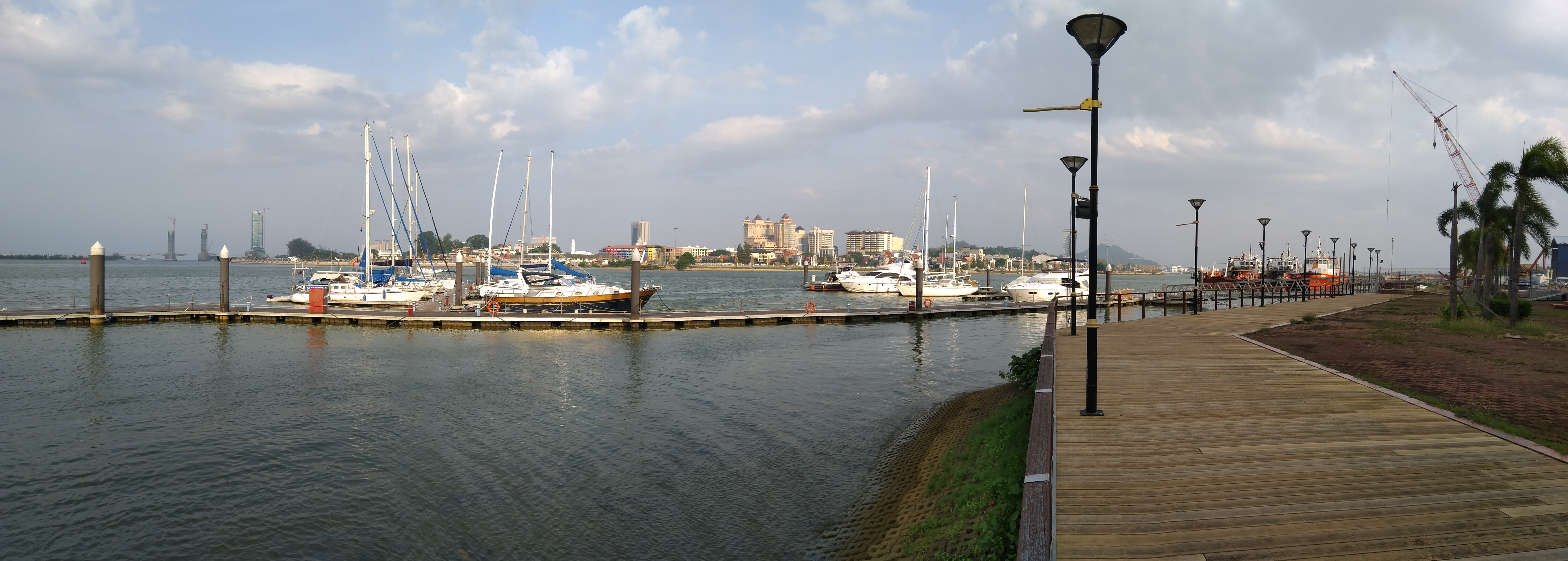 The view of Kuala Terengganu and Terengganu River estuary from Duyong Marina & Resort.